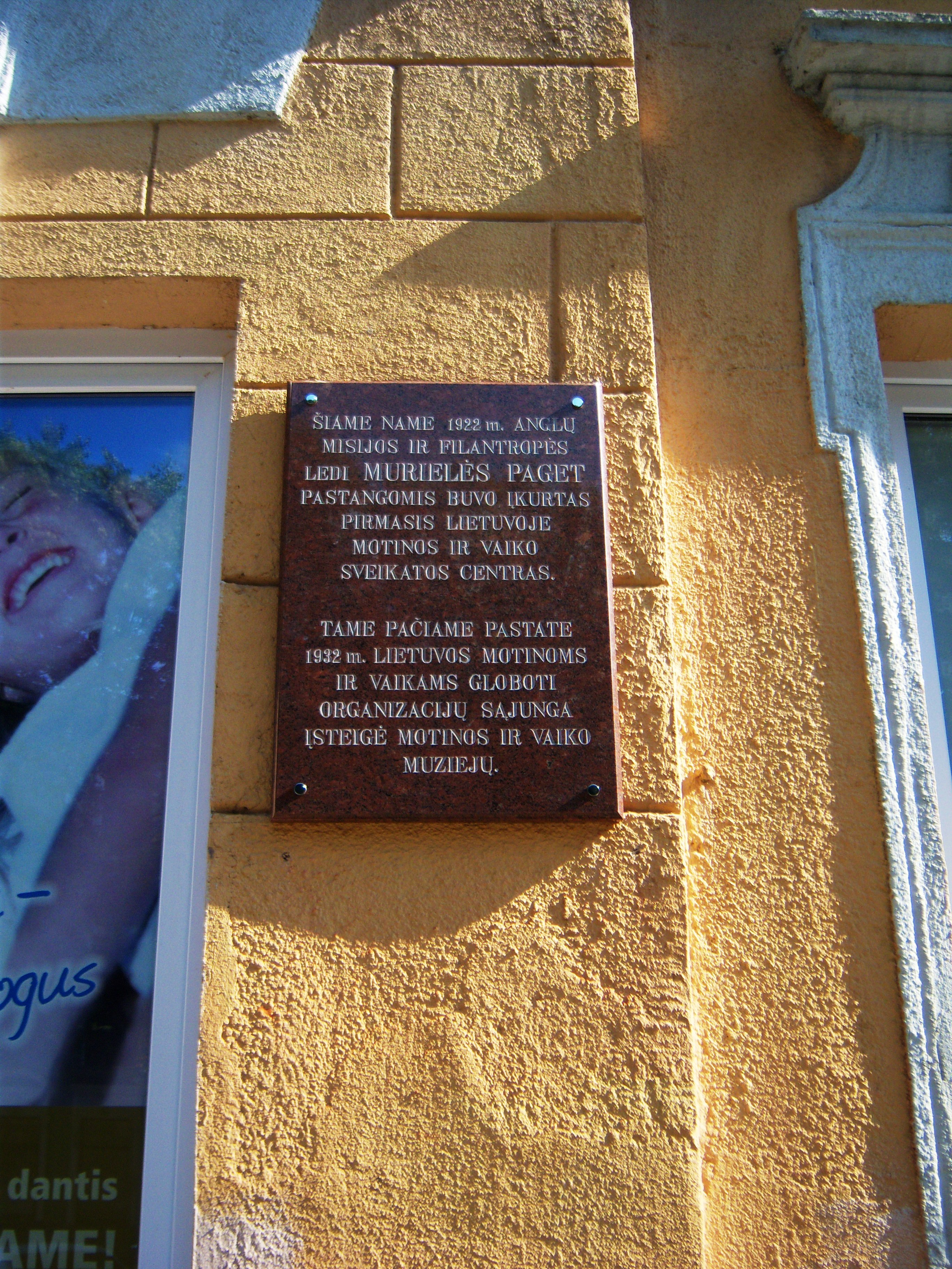 Memorial plaque to British philanthropist Muriel Paget, Kaunas, Lithuania